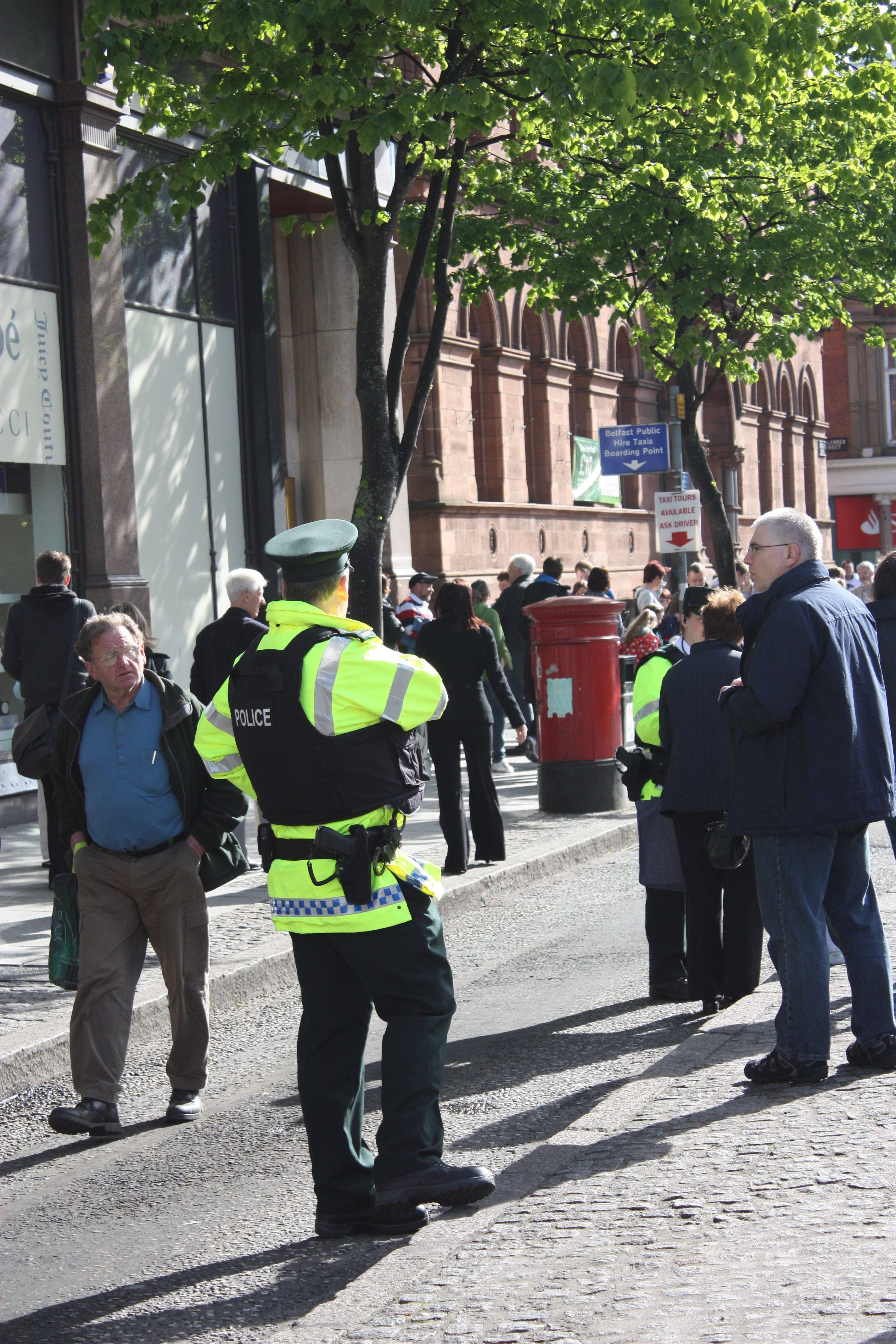 Policeman on patrol at Belfast City Marathon 2010, Donegall Square North, Belfast, Northern Ireland, May 2010